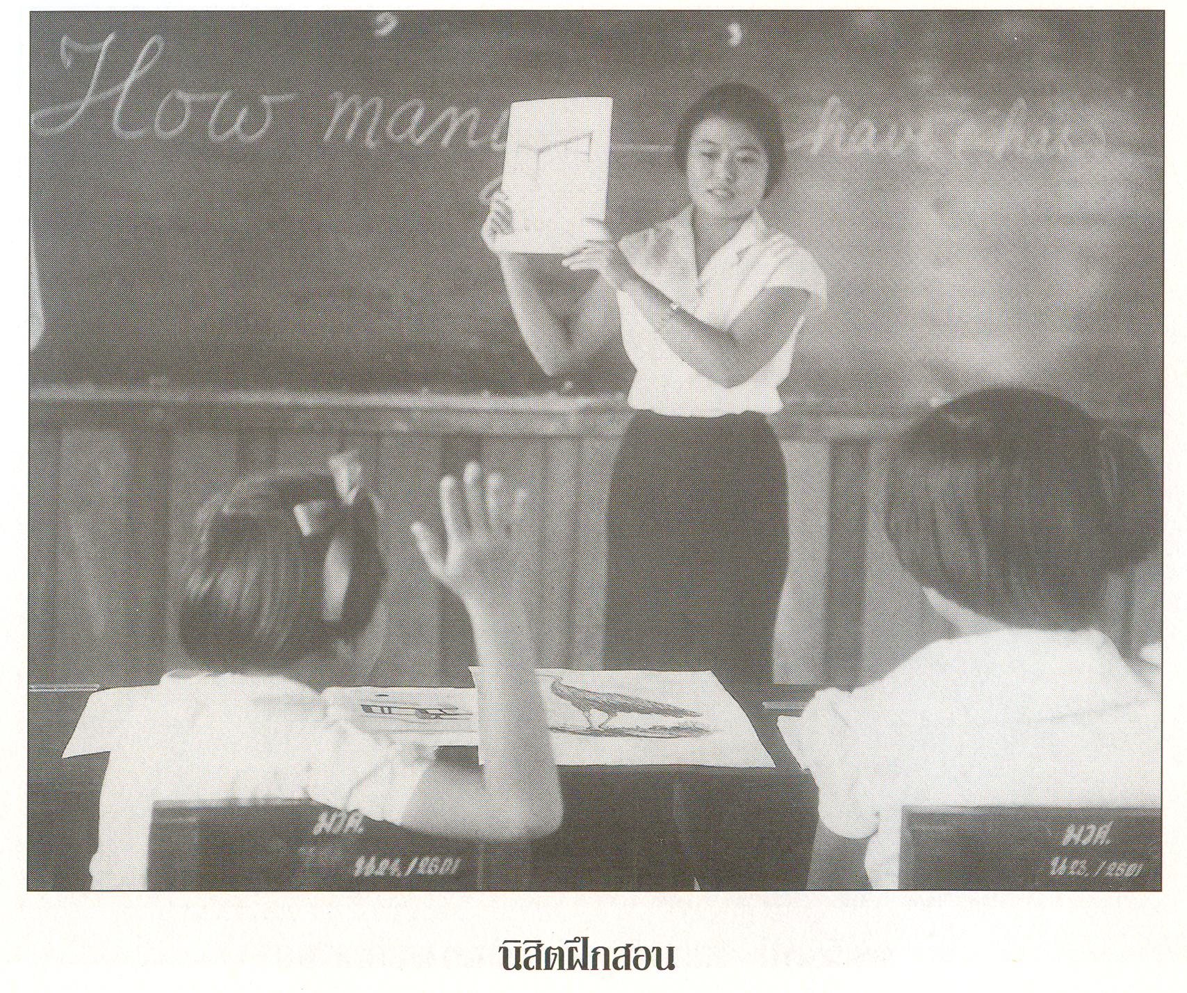 The higher education in Thailand to concentrate solely on teacher training